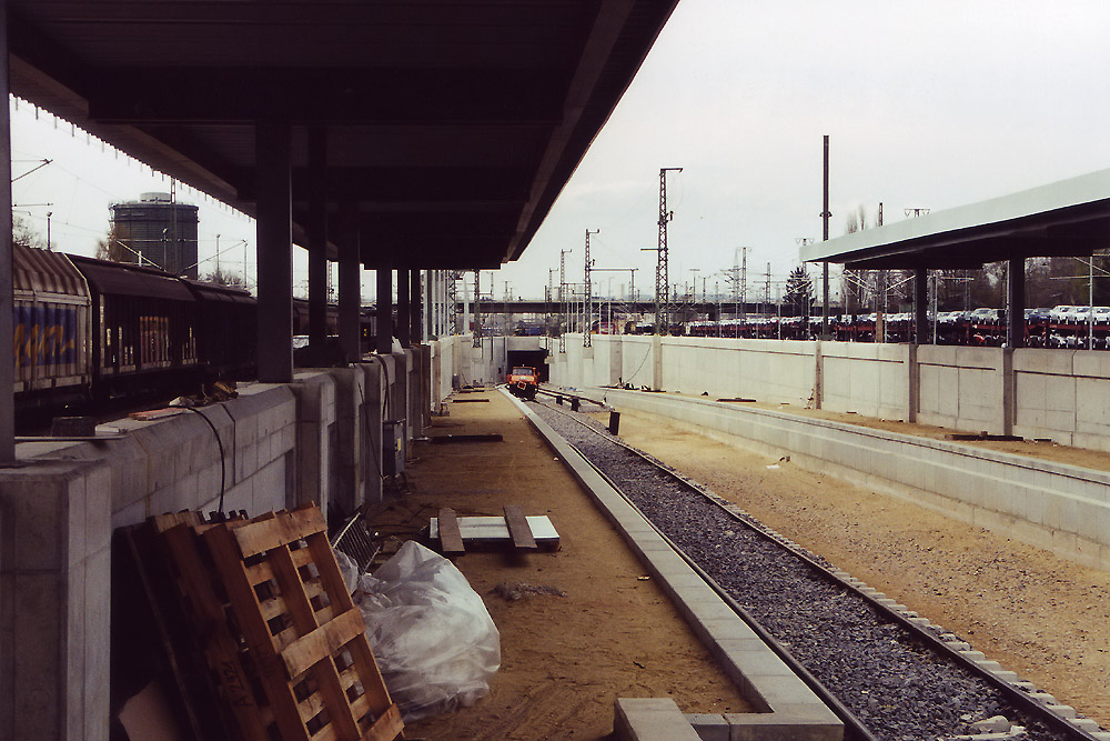 Construction work to integrate to ramp to the high-speed rail line at the railway station Ingolstadt Nord